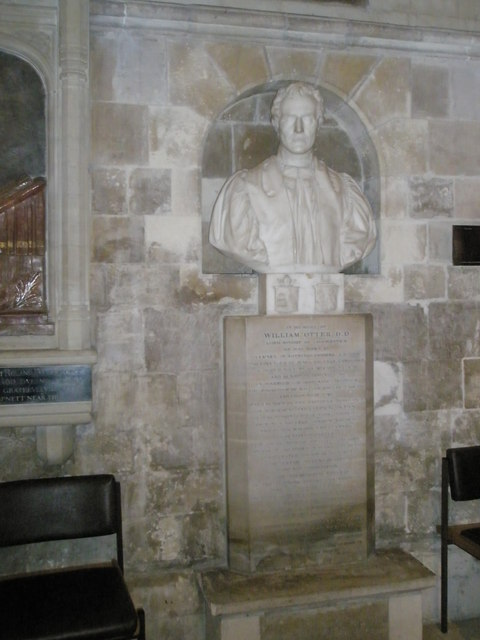 Bust of a noble Bishop within Chichester Cathedral Namely William Otter- for more details see William_Otter